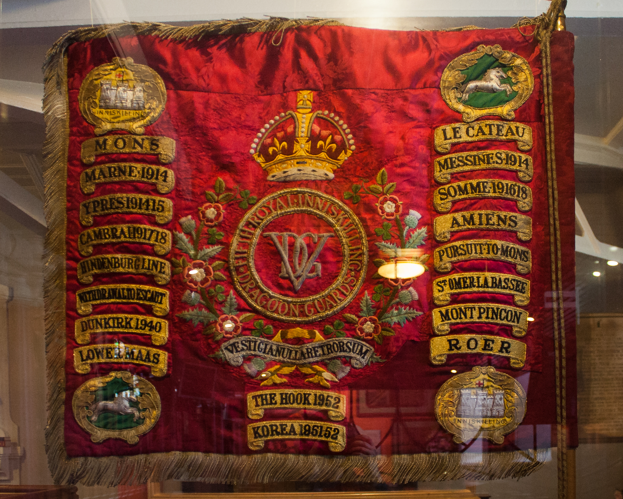 Regimental colours of the Fifth Royal Inniskilling Dragoon Guards, exhibited in the north aisle behind glass. The honors, left column: Mons, Marne 1914, Ypres 191415, Cambrai 191718, Hindenburg Line, Withdrawal to Escaut, Dunkirk 1940, Lower Maas. Right column: Le Cateau, Messines 1914, Somme 191618, Amiens, Pursuit to Mons, St Omer La Bassee, Mont Pincon, Roer. Centre column: The Hook 1952, Korea 195152. Motto: vestigia nulla retrorsum.